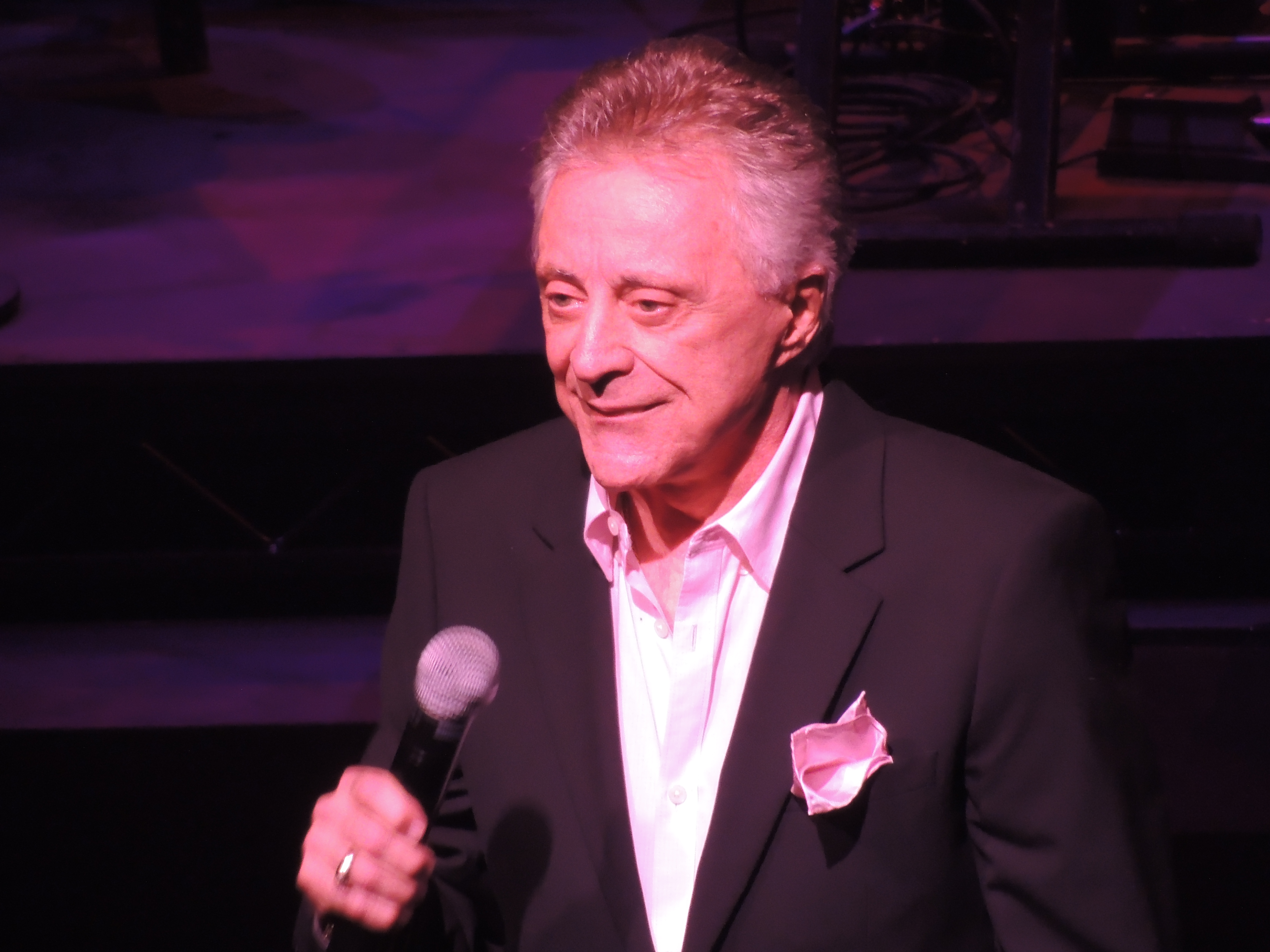 Frankie Valli on Broadway in New York City, 2012-10-27